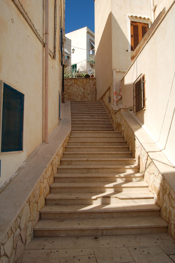 stairway in Levanzo, Italy. DSC_2373